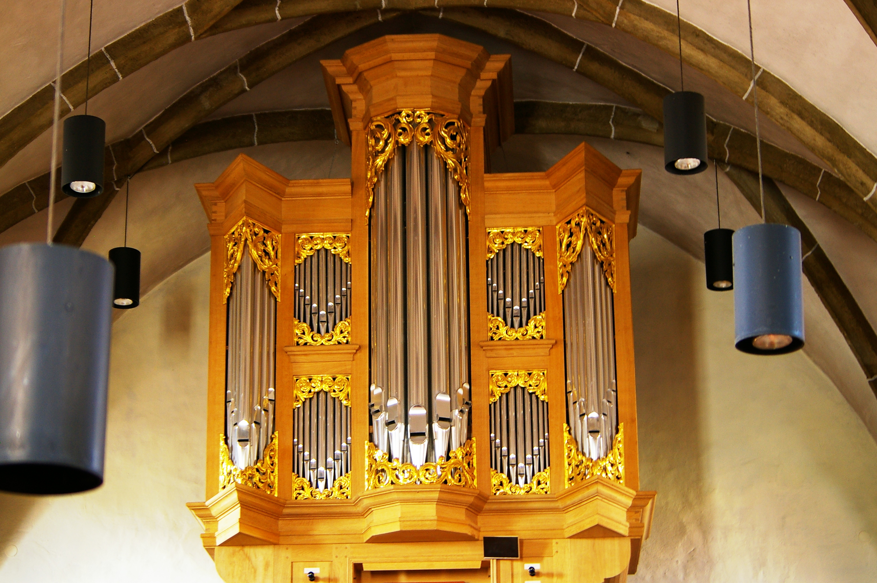 organ of the parish church Franking